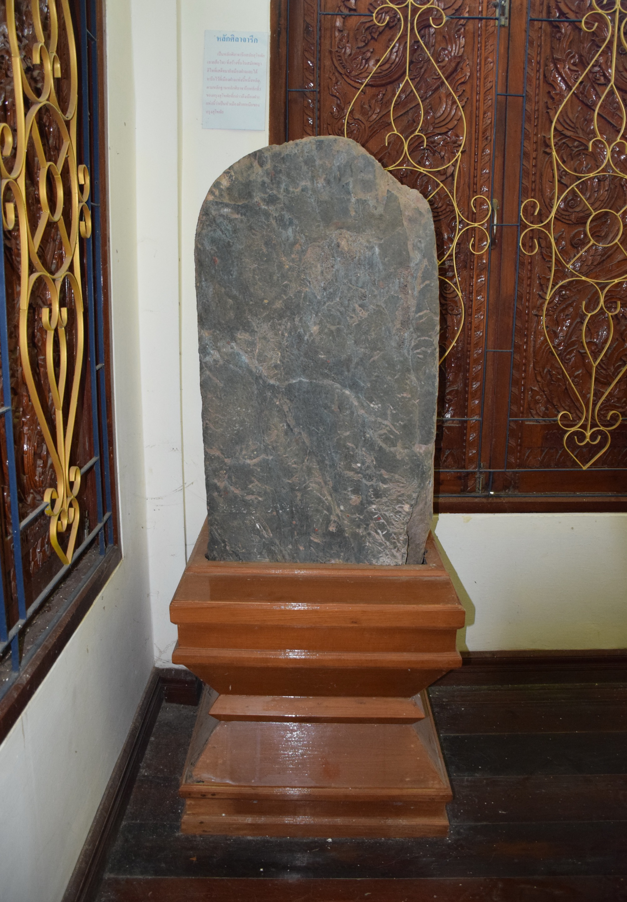 sukhothai stone inscription in Wat Phra Fang